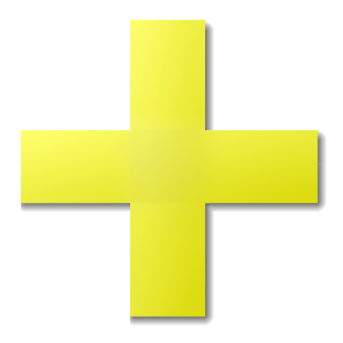 Greek Cross